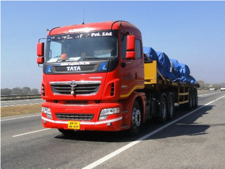 Tata Modified